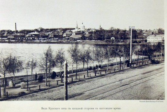 Red Pond and Krasnoye selo in Moscow